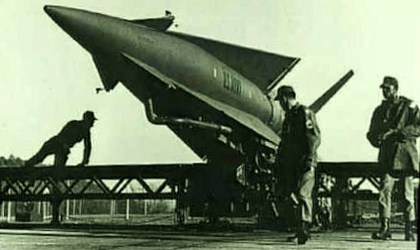 Tuono NATO base.